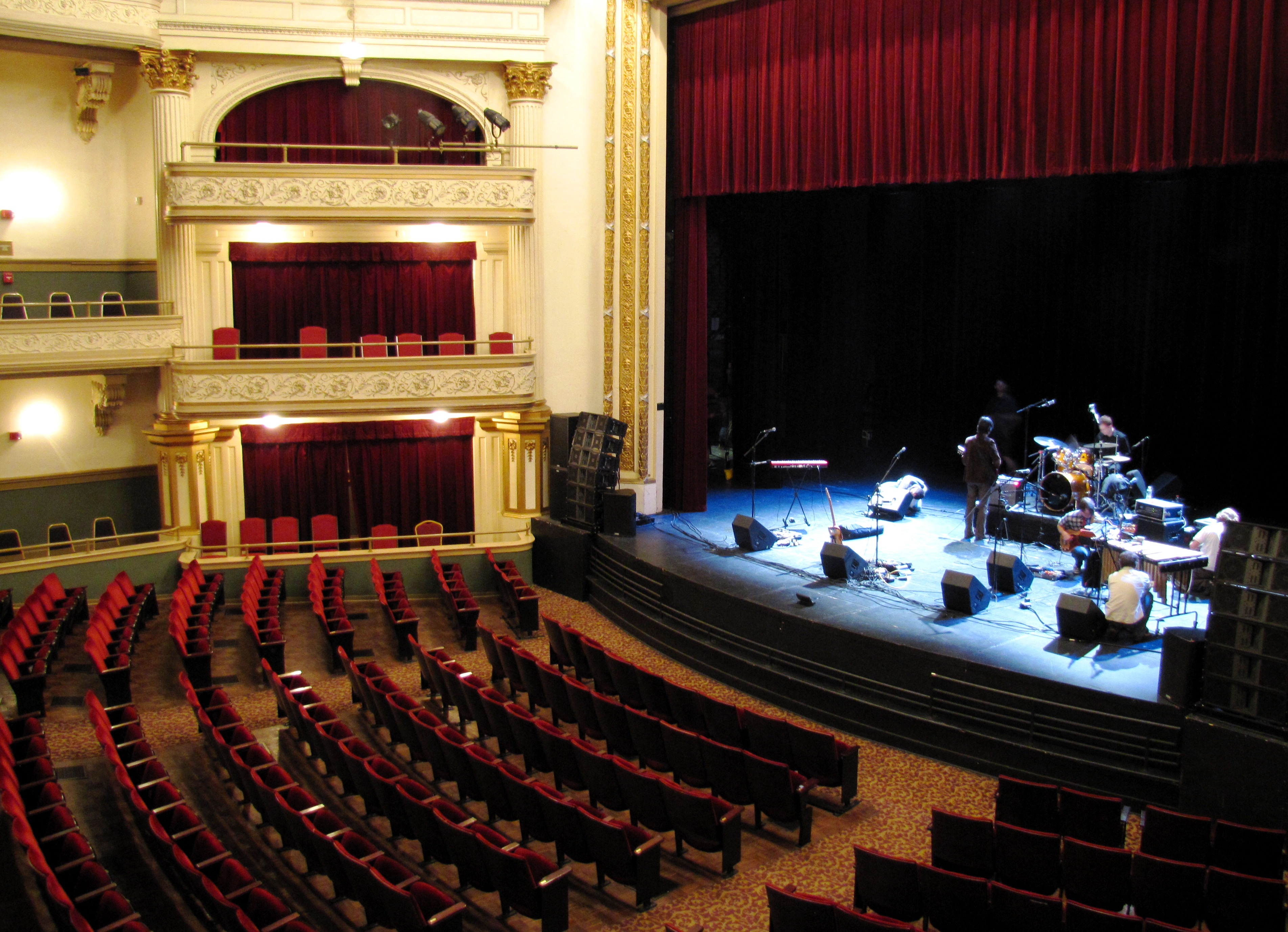 View from the balcony of the Bijou Theatre in Knoxville, Tennessee, USA, showing the south boxes and stage.